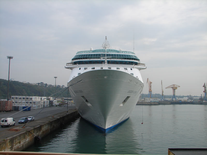 Front view of the Legend of the Seas.